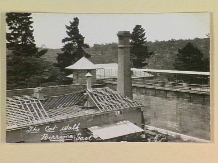 "The Cat Walk", Berrima Gaol